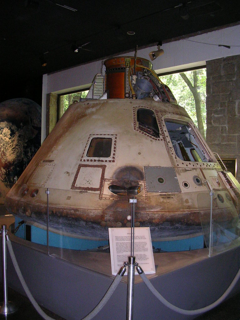 Apollo 6 command module in the Fernbank Science Center, 156 Heaton Park Drive, unincorporated DeKalb County, Georgia. 33°46′43″N 84°19′5″W / 33.77861°N 84.31806°W